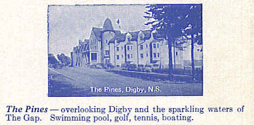 Promotional Photograph of Digby Pines Resort in Digby Nova Scotiafrom 1936 railway timetable.